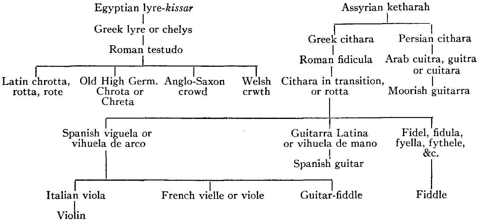 Genealogical chart showing the ancestry of the modern violin.